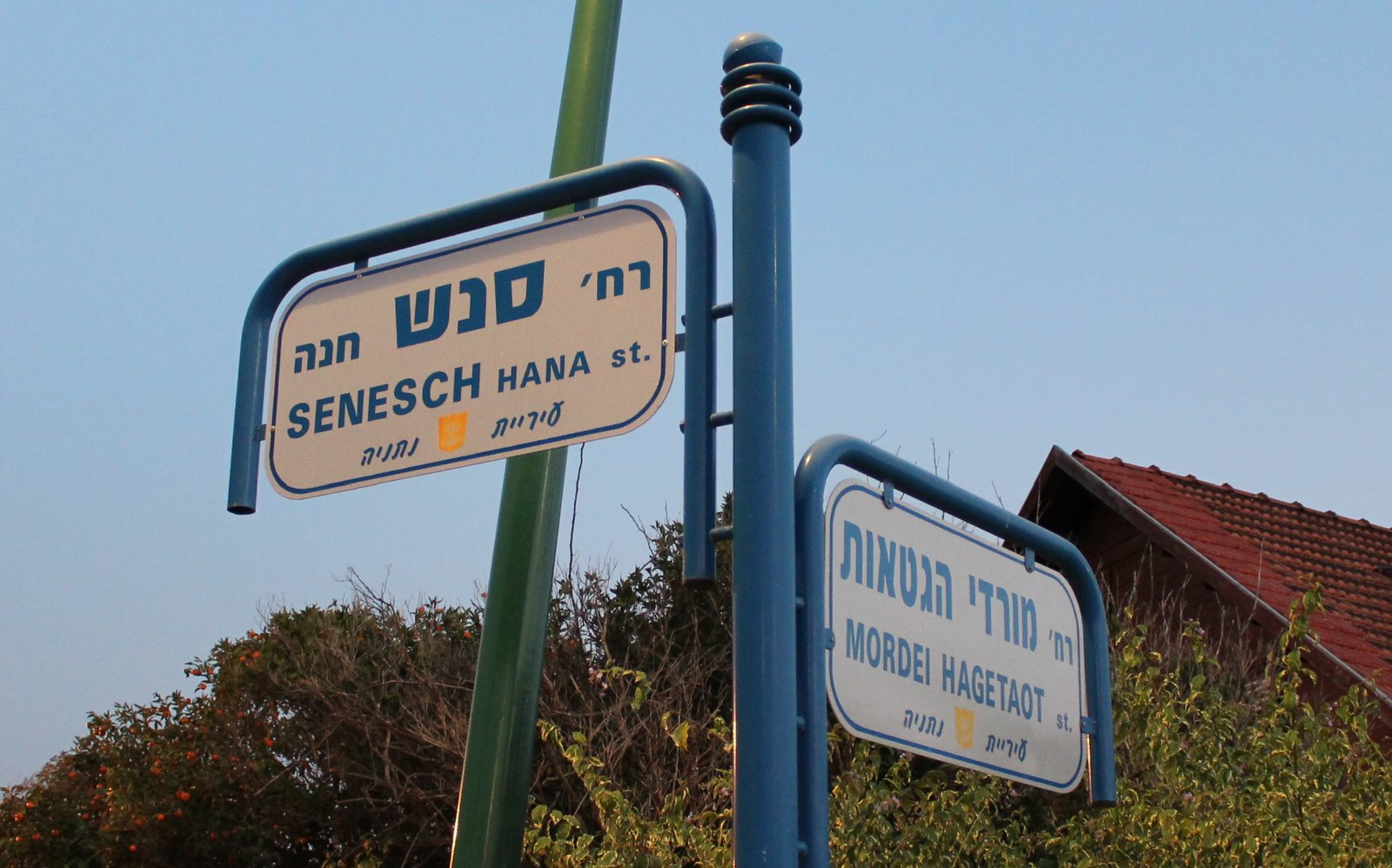 Hannah Szenes's street in Netanya, Israel